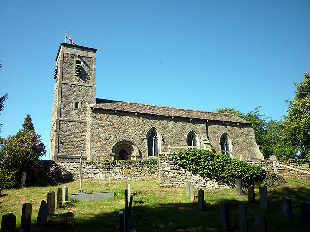 Parish church of St John the Evangelist, Gressingham, Lancashire, seen from south-southwest